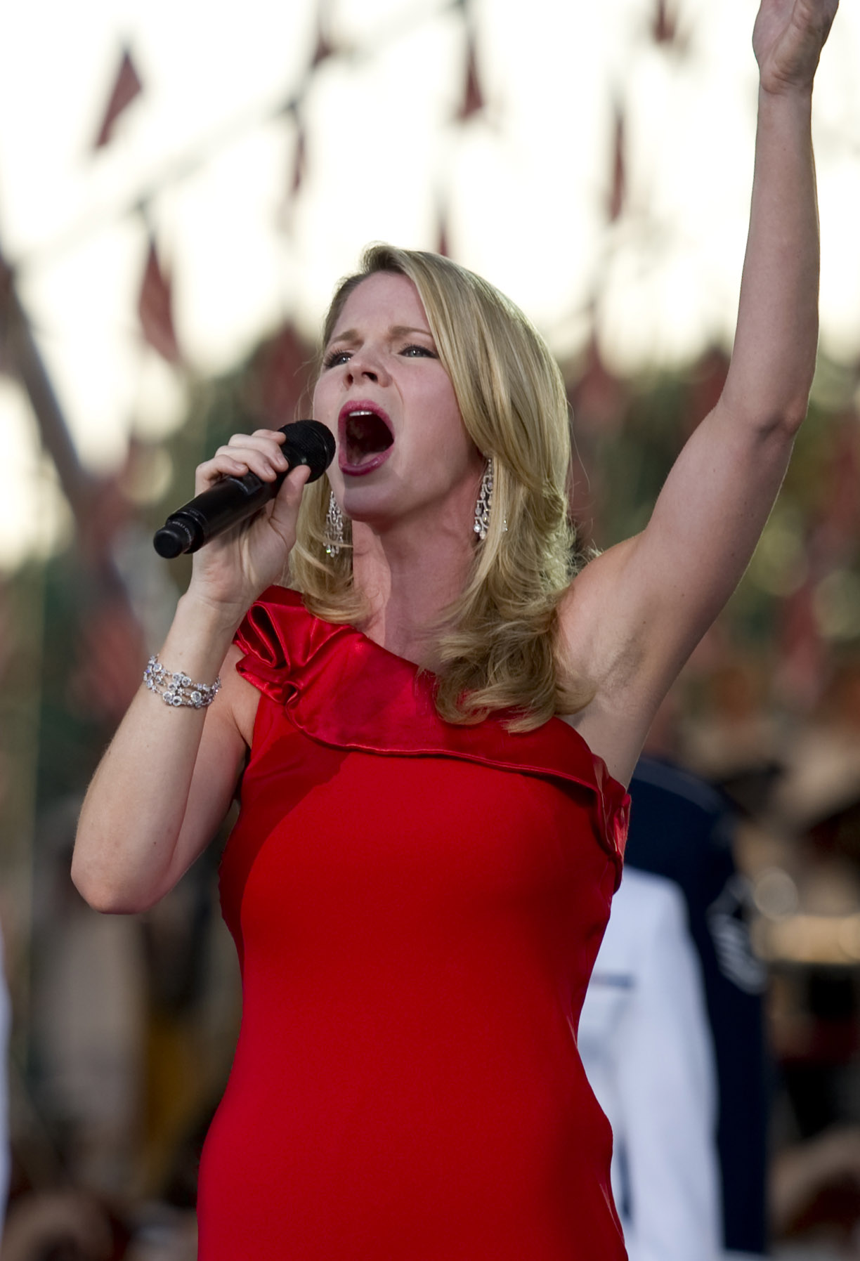 Kelli O'Hara performs at the National Memorial Day Concert on the West Lawn of the U.S. Capitol in Washington, D.C on May 30, 2010.